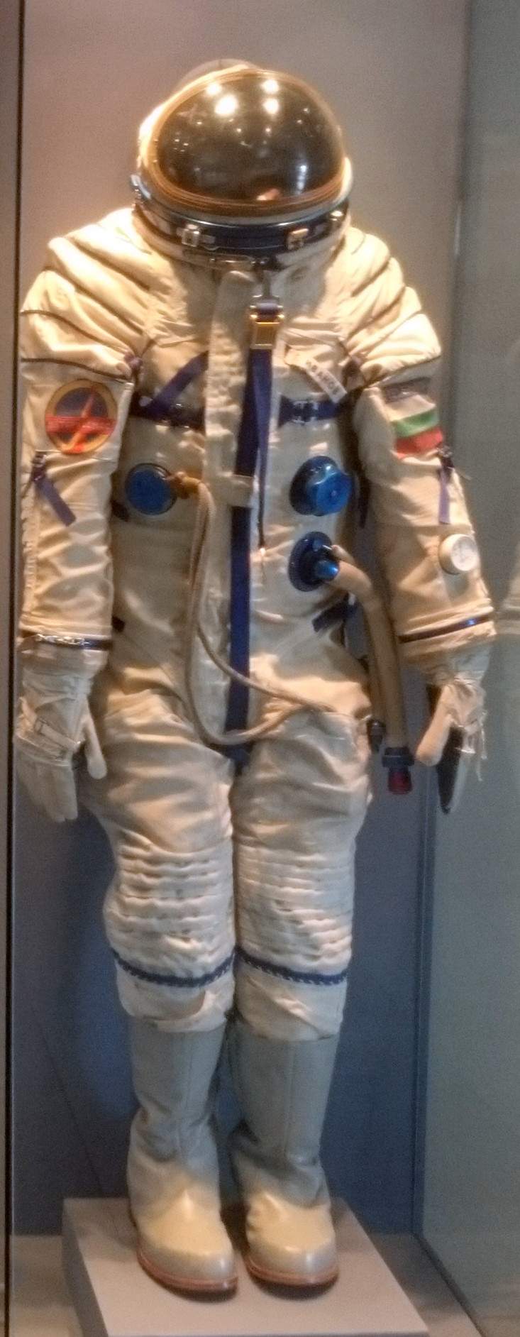 The space suit of Georgi Ivanov from his flight on Soyuz 33